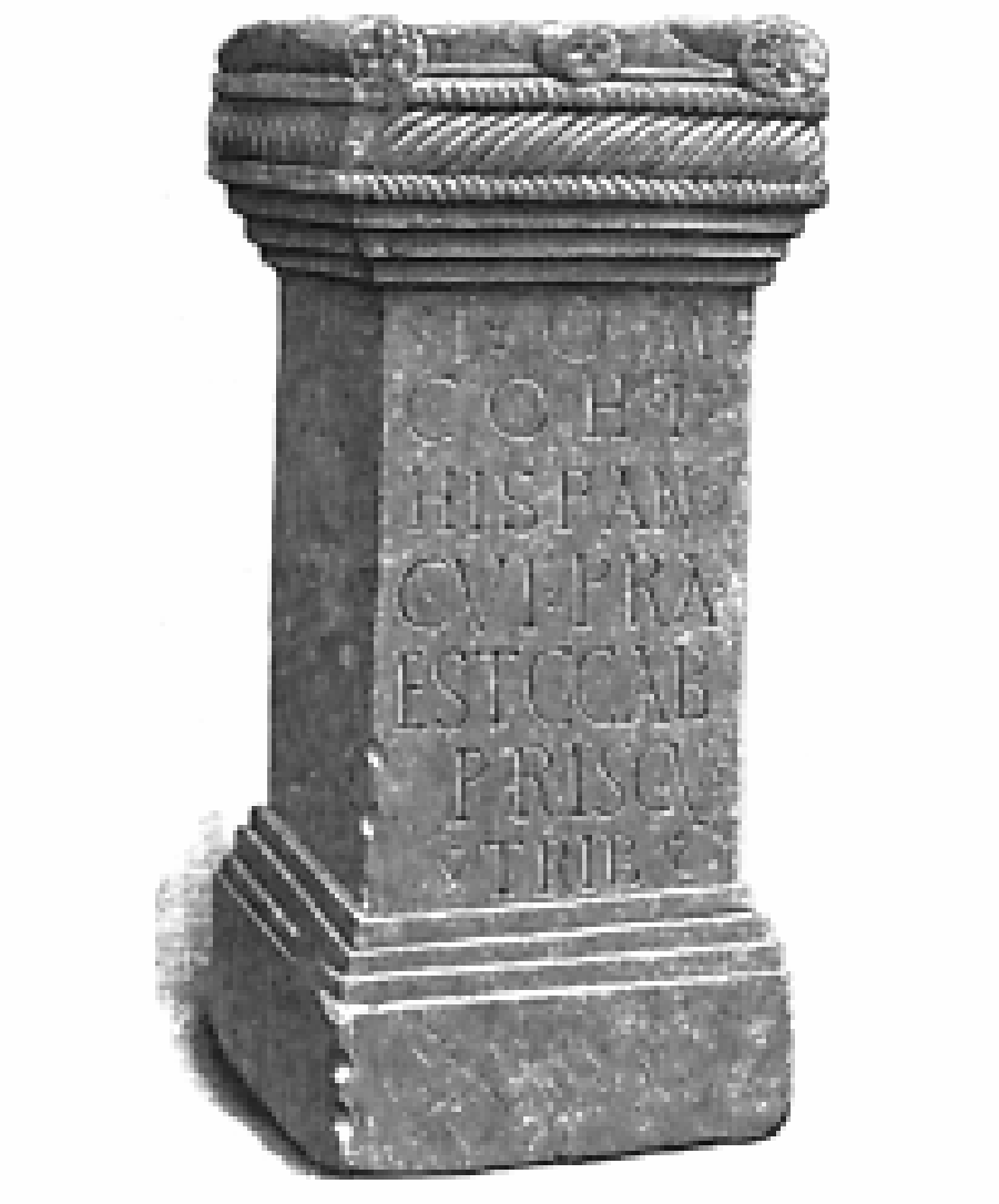 Altar dedicated by Gaius Caballius Priscus, tribune, to Jupiter Optimus Maximus, found 1870 about 320 m. north-east of the fort at Maryport, now Senhouse Museum.